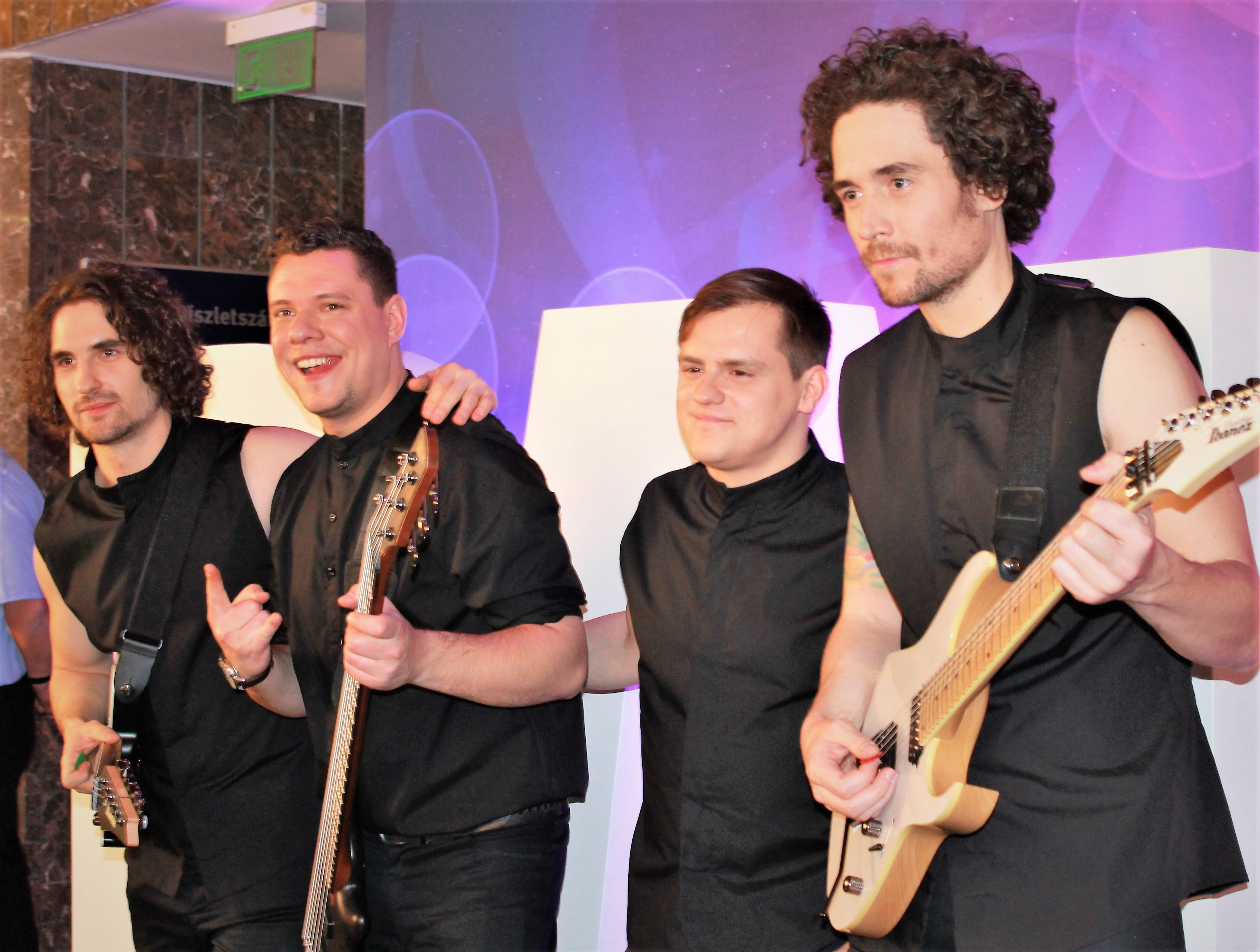 A Dal 2018 participant: Leander Kills